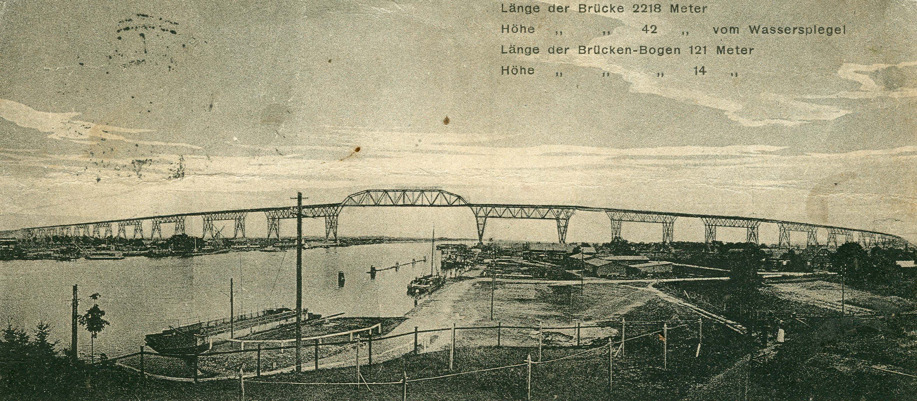 Postcard of an anonymous photographer with a view over the Kiel Canal and the high bridge at Hochdonn and castle in Dithmar. The more than 2 km long steel girder bridge was built by the bridge builders Dortmunder Union "and Louis Eilers in the years 1914 to 1919.